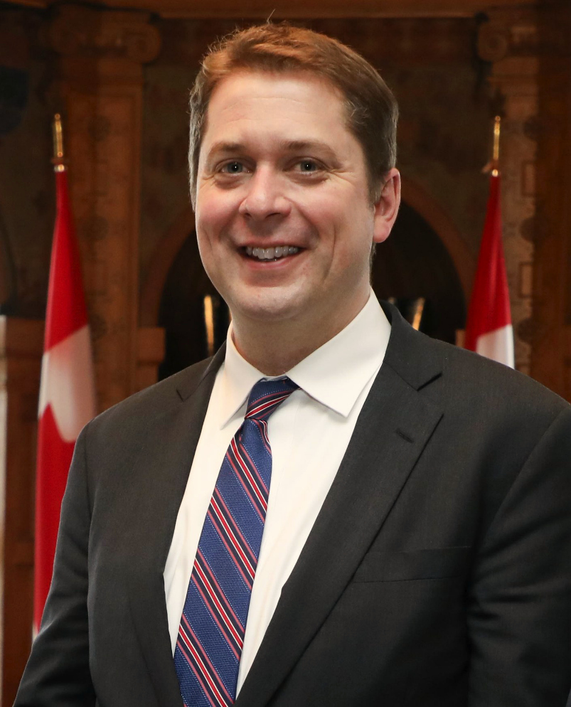 Photos Andre Forget / OLO